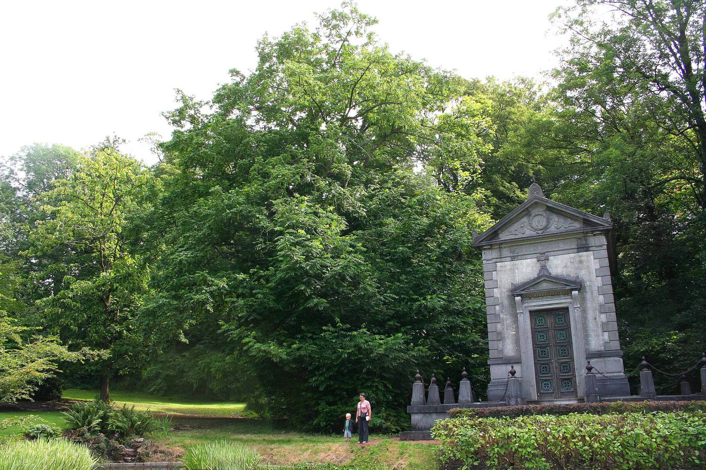 Caucasian Wing-Nut seeds